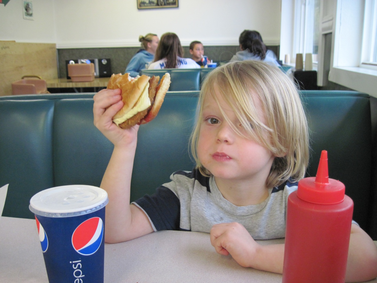 Child eating a veggie burger at a fast food restaurant.